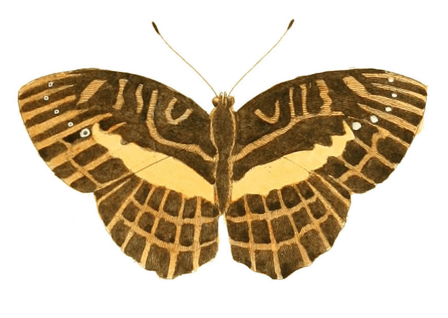 Extract from Plate XVIII. NYMPHALIS OPIS (= Cynandra opis).